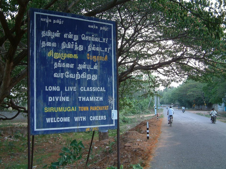 Welcome board of Sirumugai